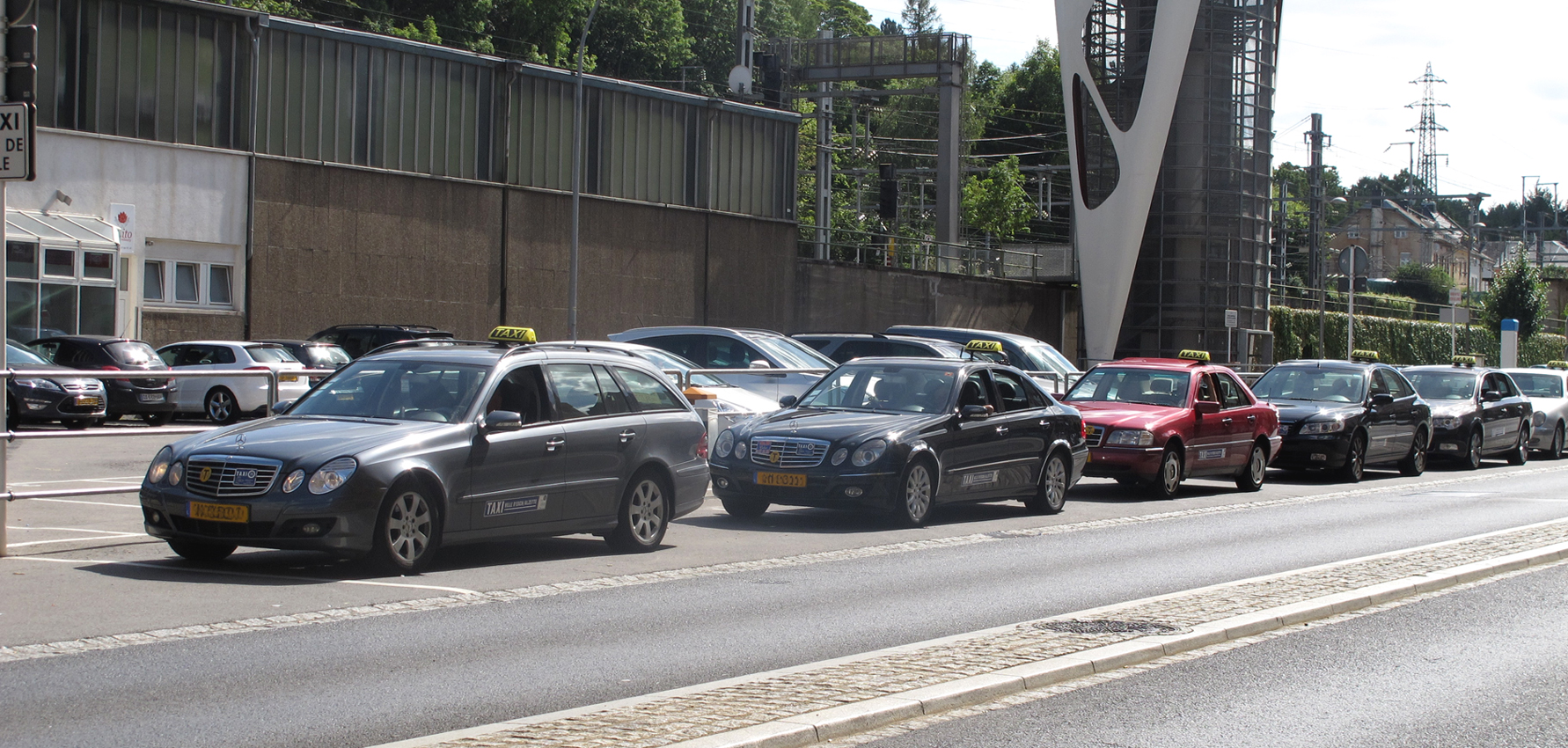 Row of taxi cabs beofore the train station in Esch-Alzette, Luxembourg